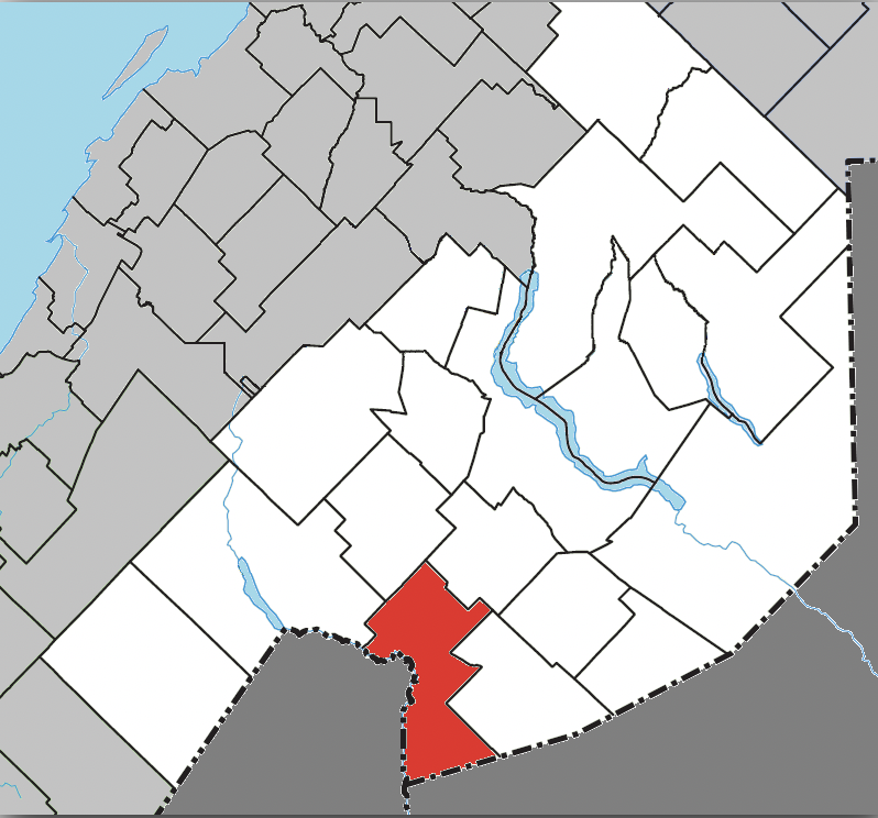 Location of Rivière-Bleue, Quebec within Témiscouata Regional County Municipality.